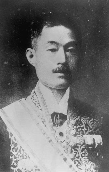 Keishirō Matsui's portrait